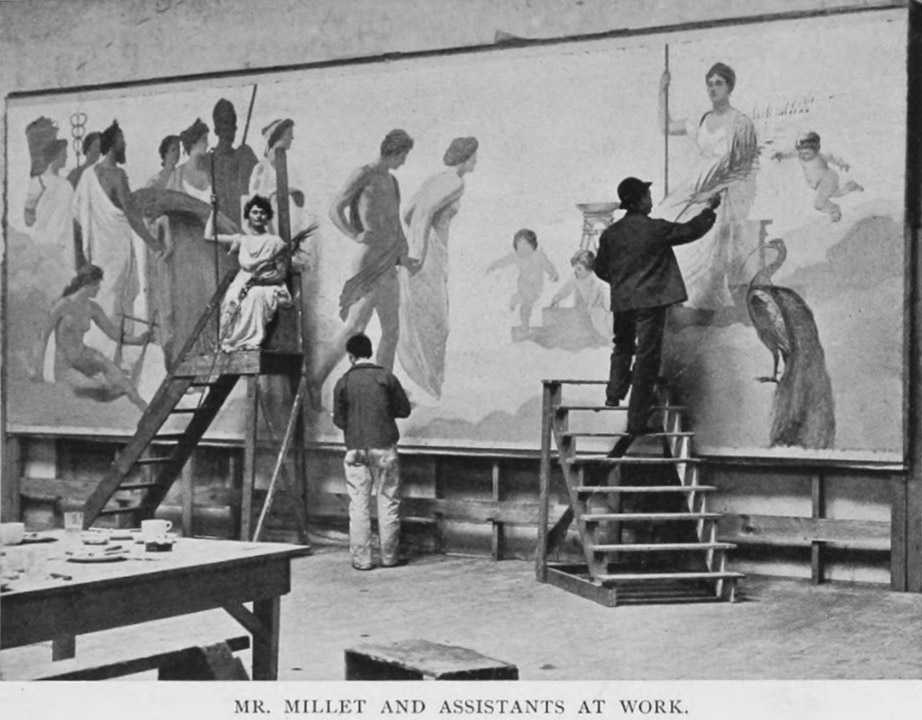 Photograph of Francis Davis Millet painting The Triumph of Juno (1892) a mural for the New York State Building at the 1893 World's Columbian Exposition, Chicago, Illinois.